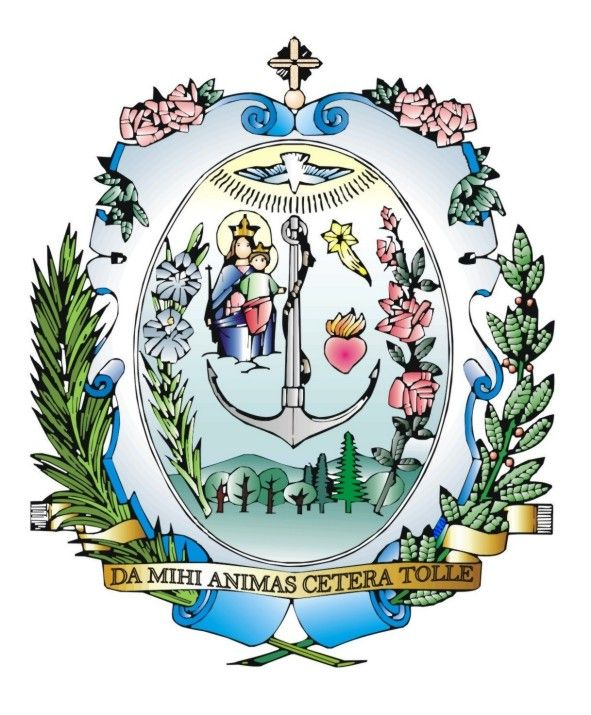 Coat of arms of Sisters of Dom Bosco (Salesian Sisters), from a print ca. 1920